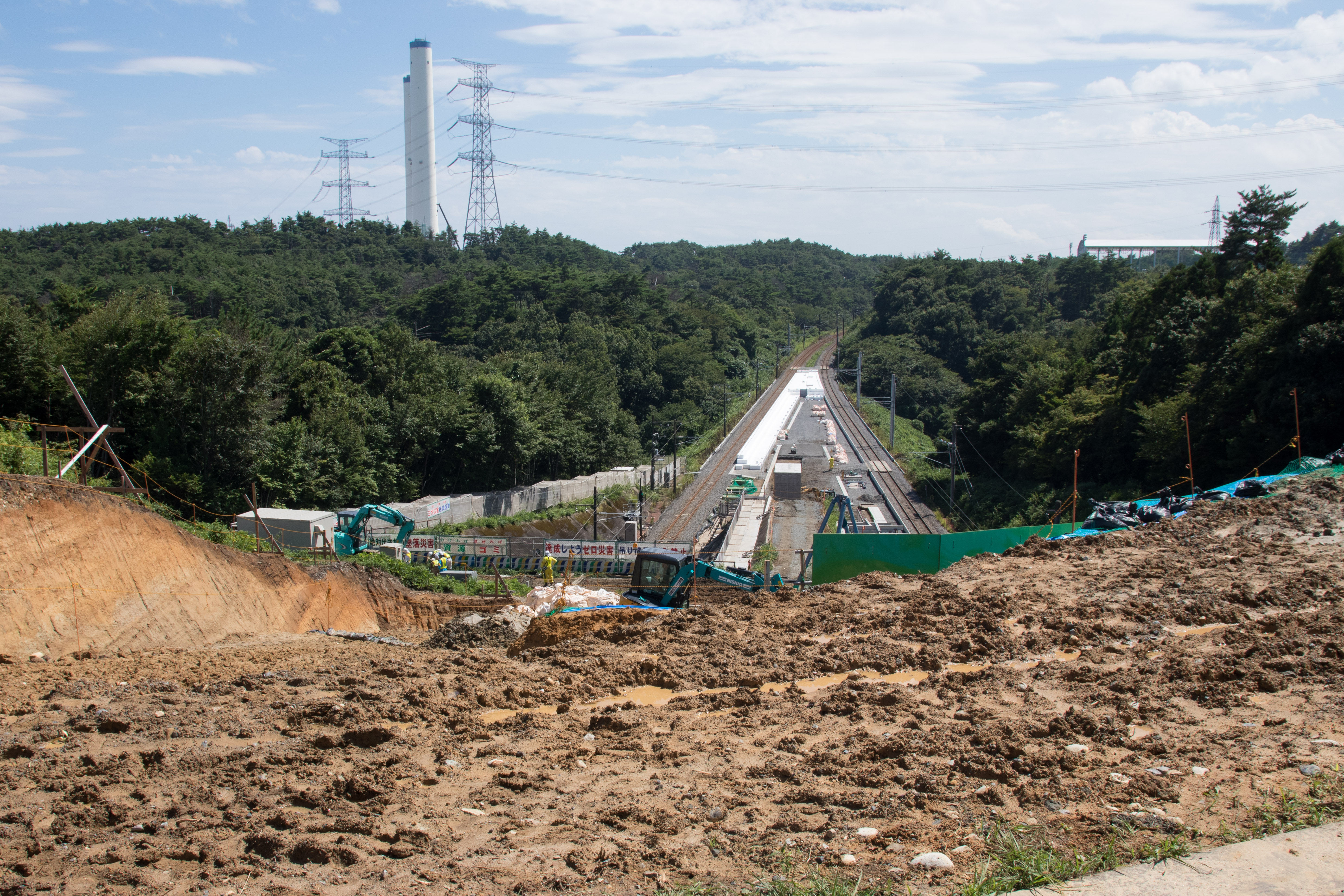 J-Village Station under construction, Joban Line, Naraha Town, Fukushima Prefecture, Japan